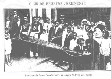 Club de Regatas Jardinense's rowing team